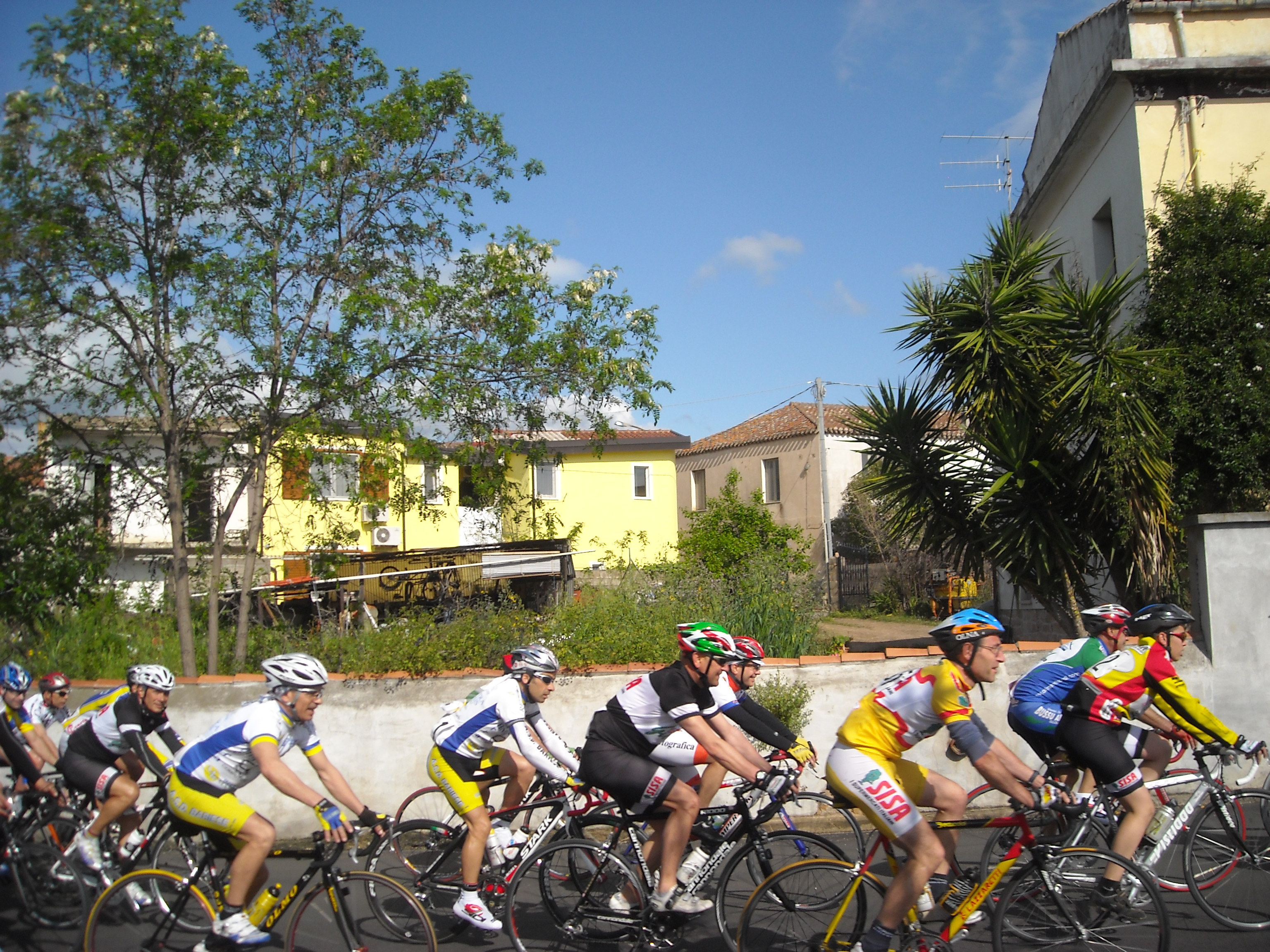 First Ogliastra road cycling race 2010 Riders go through Lotzorai